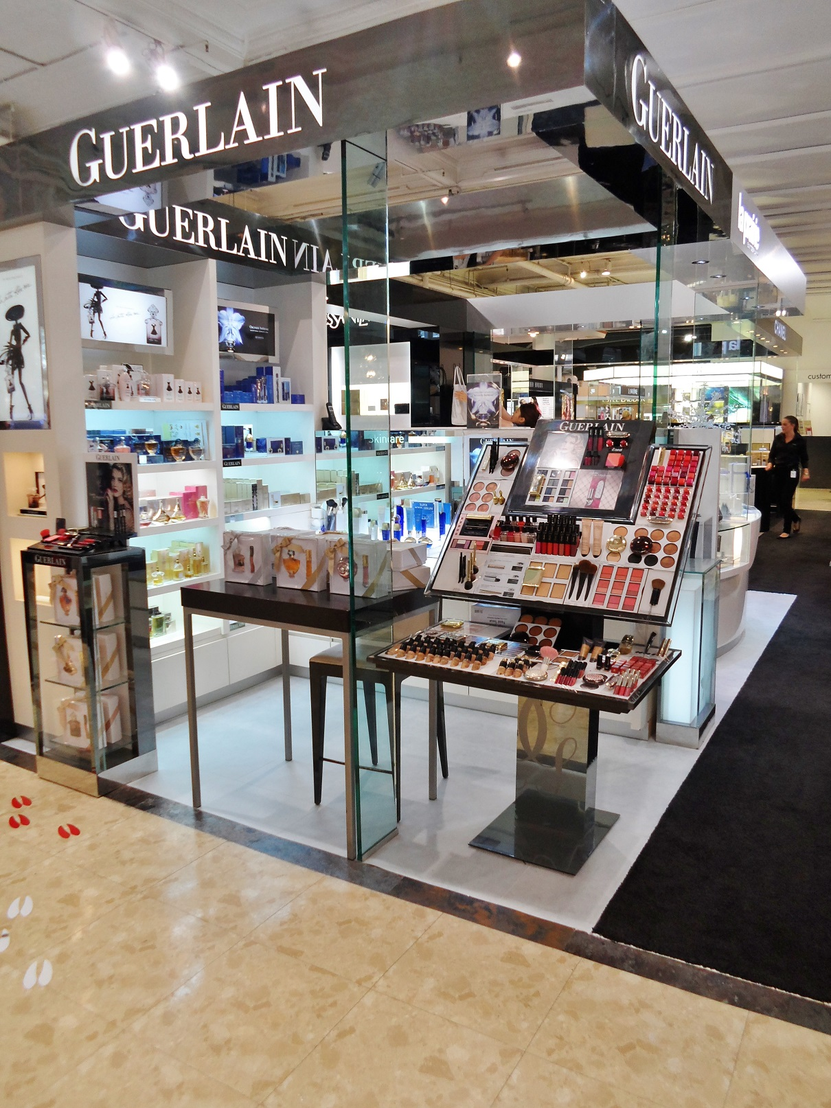 Guerlain cosmetics counter at New Zealand department store Smith & Caughey's Queen Street branch in Auckland, New Zealand in 2013.